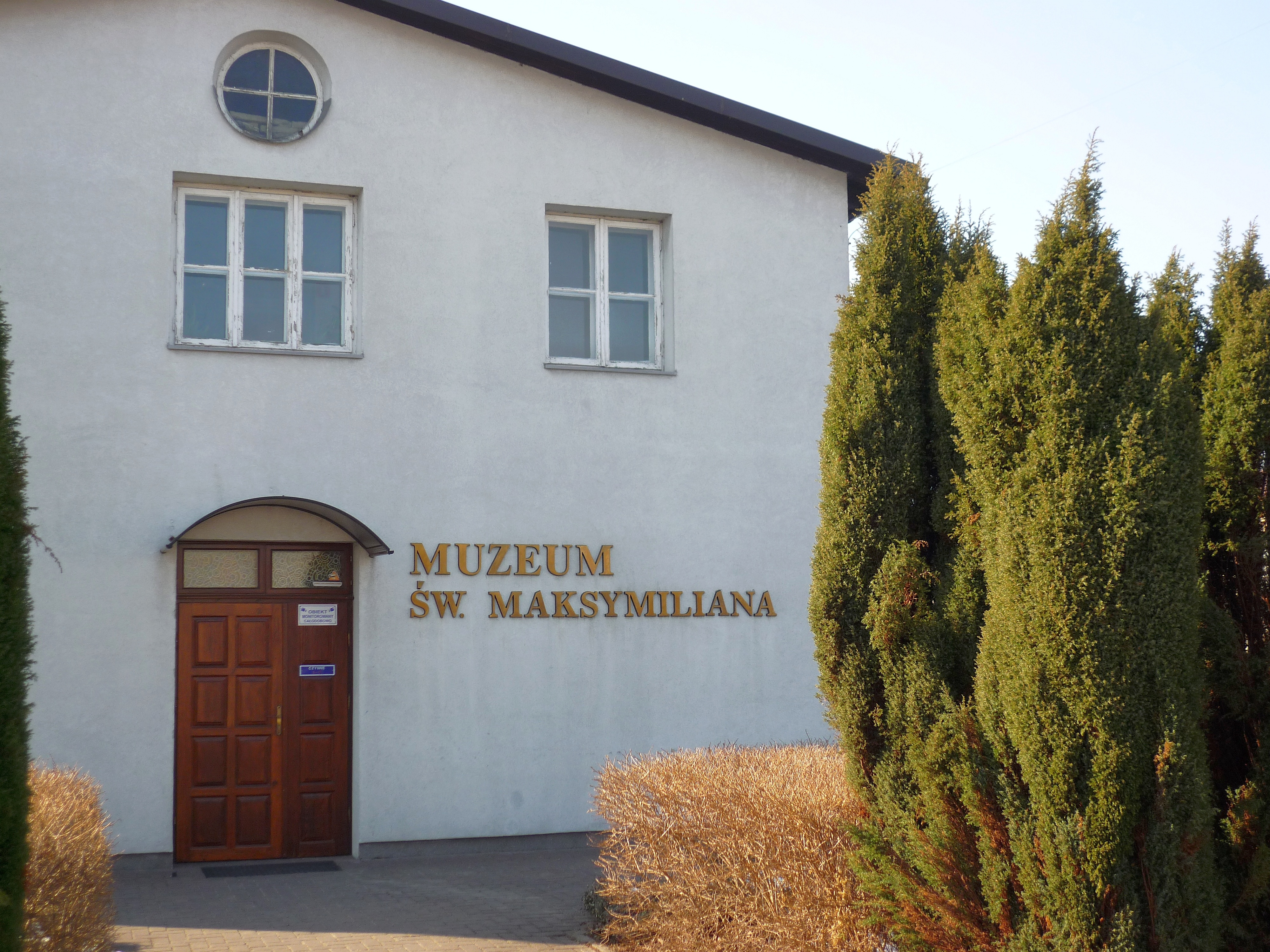 Museum of St. Maximilian Kolbe, opened in 1998